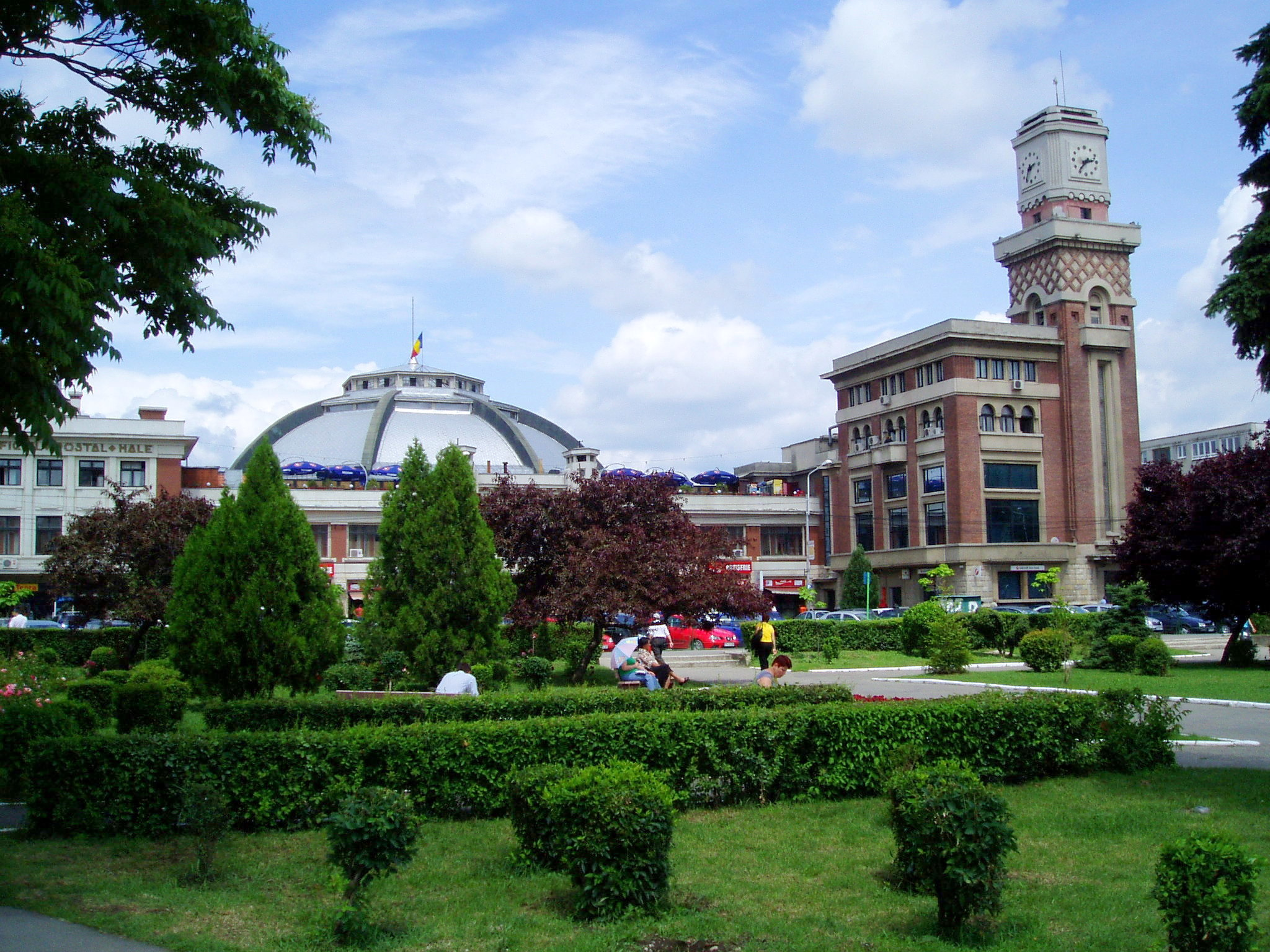 The Central Hall of Ploieşti, Romania. Architect: Toma T. Socolescu. This market place is located in the very heart of the city, strada Emile Zola, Ploieşti, Judeţul Prahova, Romania. It is classified historical monument. We are the only heirs and descendants of Toma T. Socolescu (died in 1960 in Bucharest) and therefore owner of all his intellectual rights.